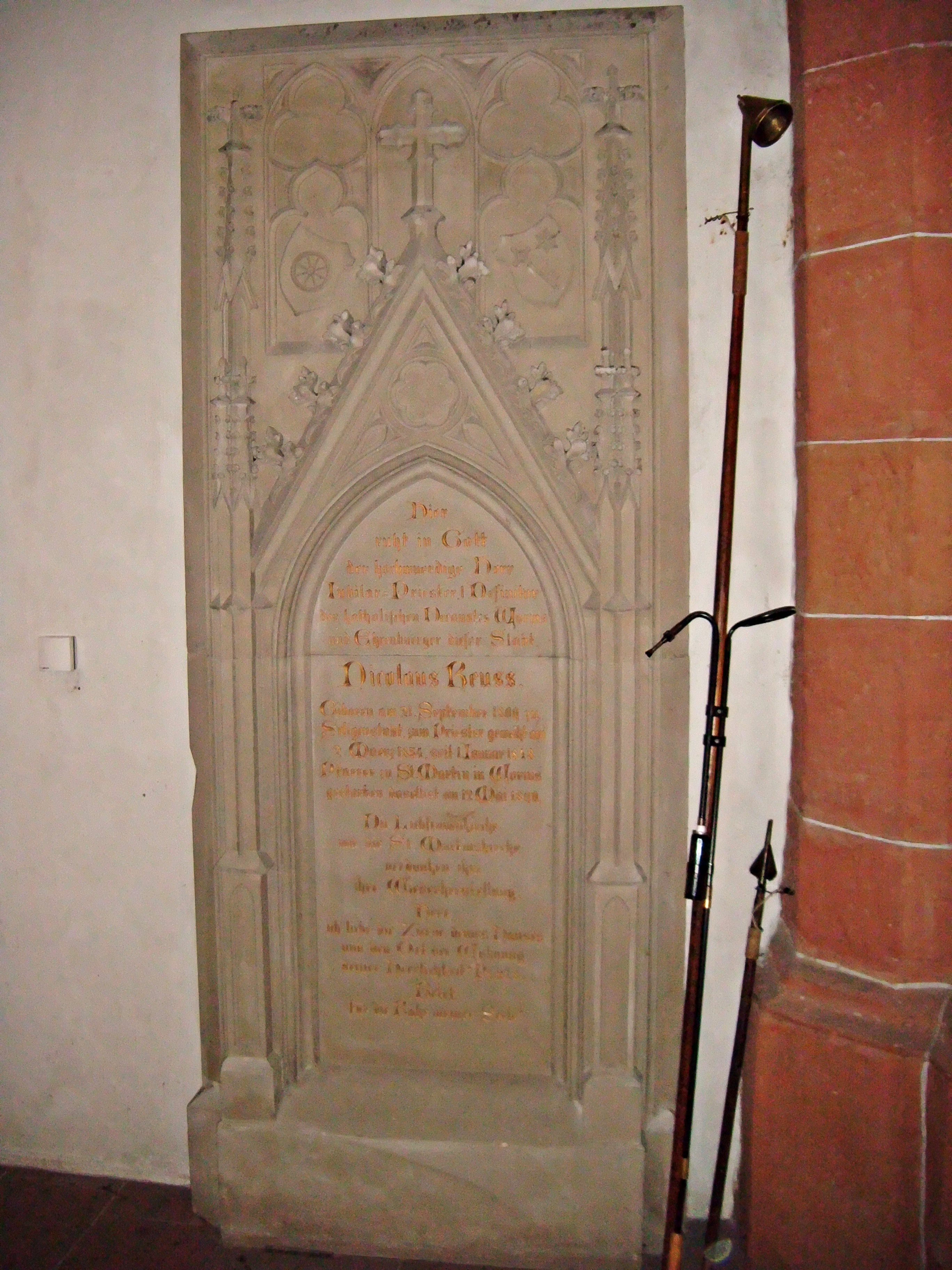 Epitaph Pfarrer Nikolaus Reuß (1809-1890), Liebfrauenkirche Worms